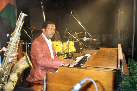 The great Hammond organ player Jimmy Smith at Festival Jazz Sori - Italy, July 1994